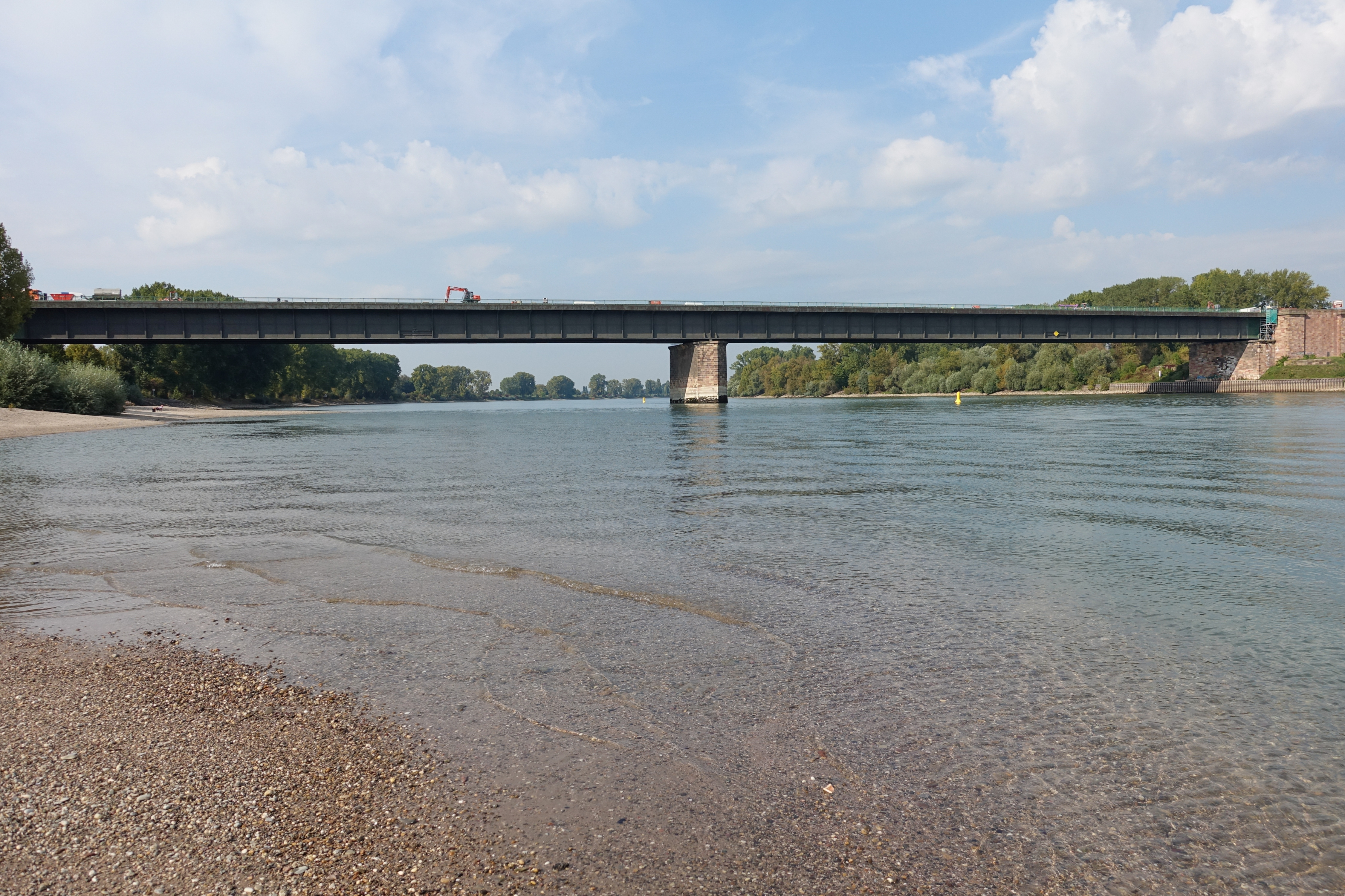 Theodor-Heuss-Bridge, German federal motorway "Autobahn 6 over the Rhine near Mannheim/Ludwigshafen/Frankenthal, middle part above the river